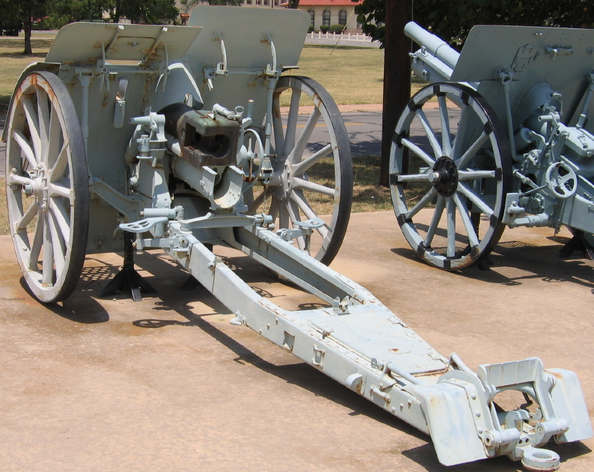 Rear view of an Austro-Hungarian 10 cm M. 14 Feldhaubitze at Ft. Sill, OK